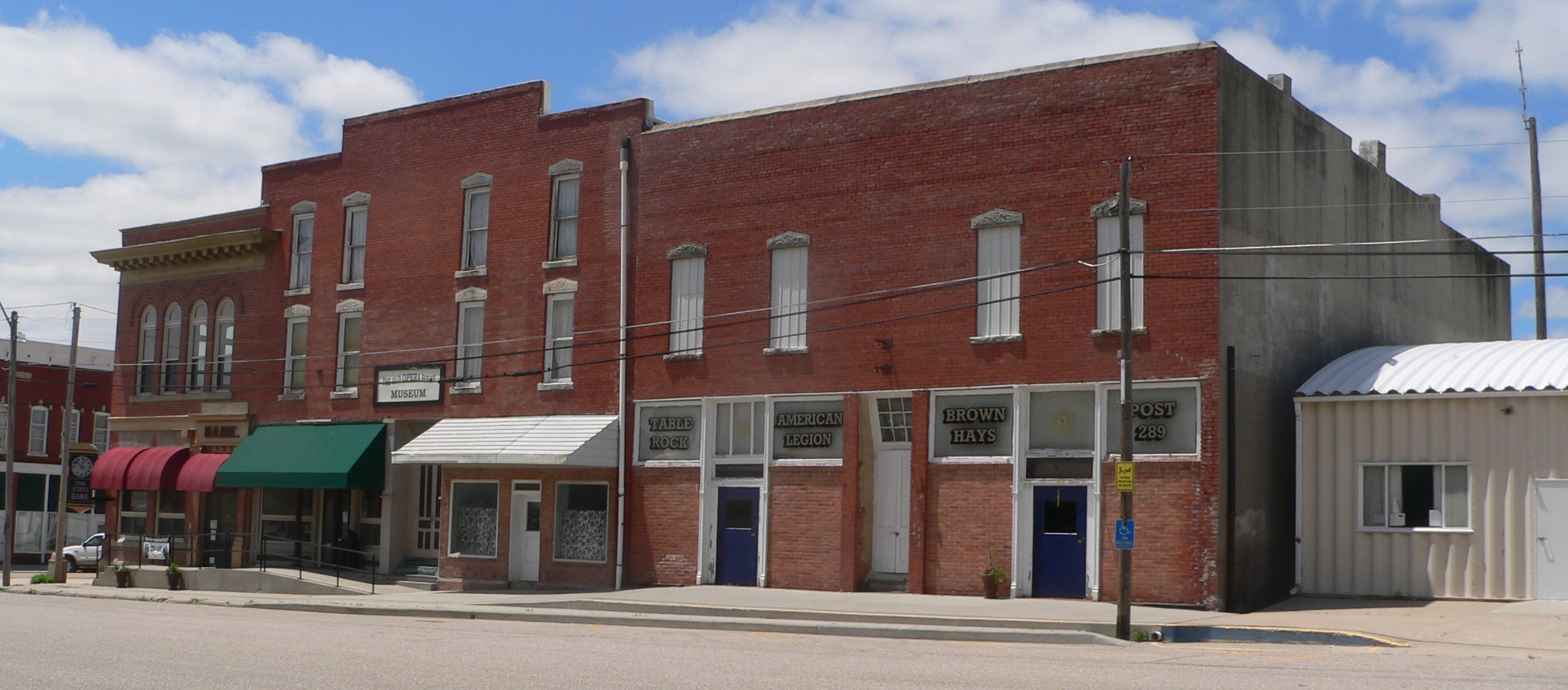 Table Rock, Nebraska: buildings on west side of Houston Street, from Luzerne Street at right (south) to about halfway between Luzerne and Pennsylvania Street. From left to right, State Bank of Table Rock, Old Opera House Museum, and American Legion hall; the corrugated-metal building partly visible at right is the Table Rock fire station.